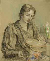 Portrait of Madeleine Zillhardt